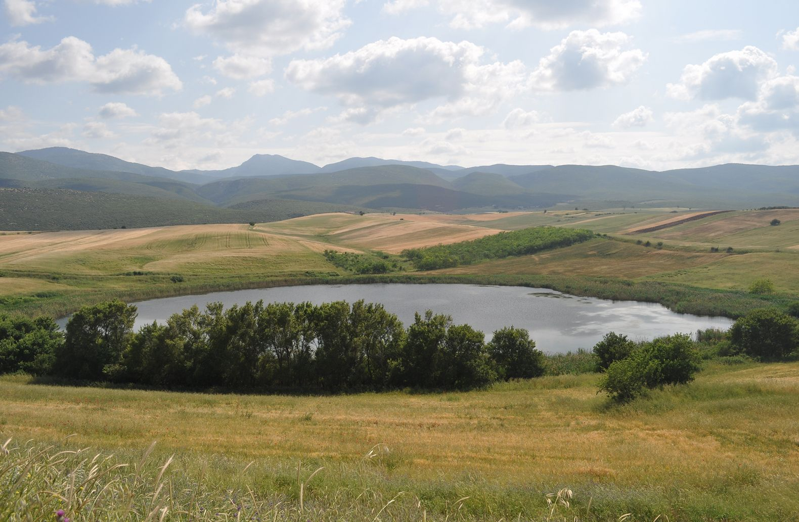 Zerelia lakes (view of the western lake), Almyros plain, Magnesia, Greece